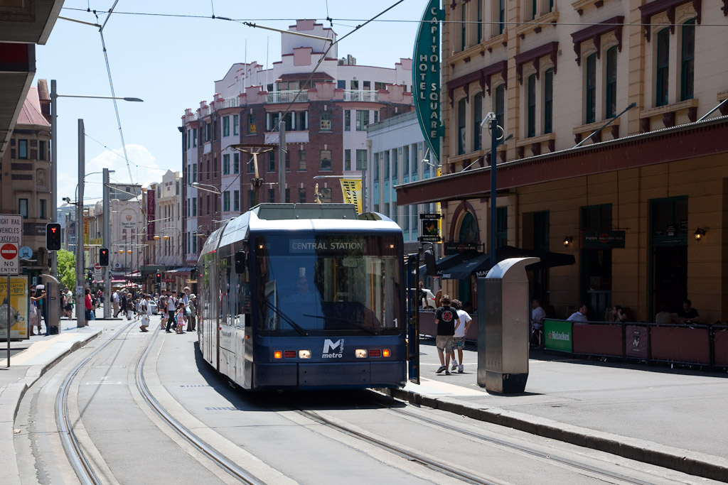 Sydney Light Rail Capitol Square Station